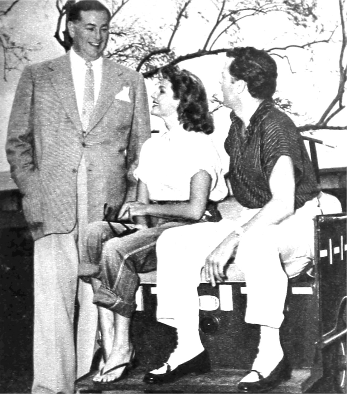 Photo of Jack Entratter with Rita Hayworth and Dick Haymes. The couple was married at the Sands Hotel, Las Vegas, and Entratter was their best man.